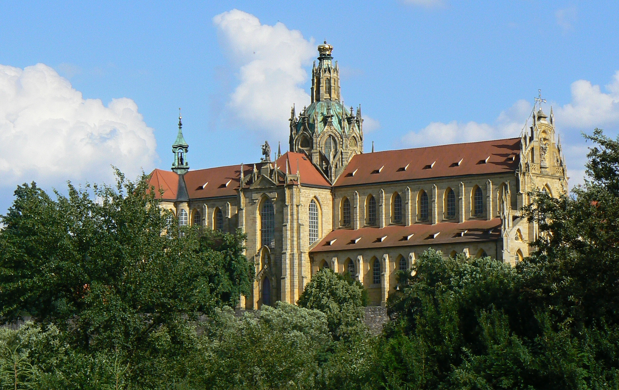 Monastery in town Kladruby in Tachov District in Czech Republic